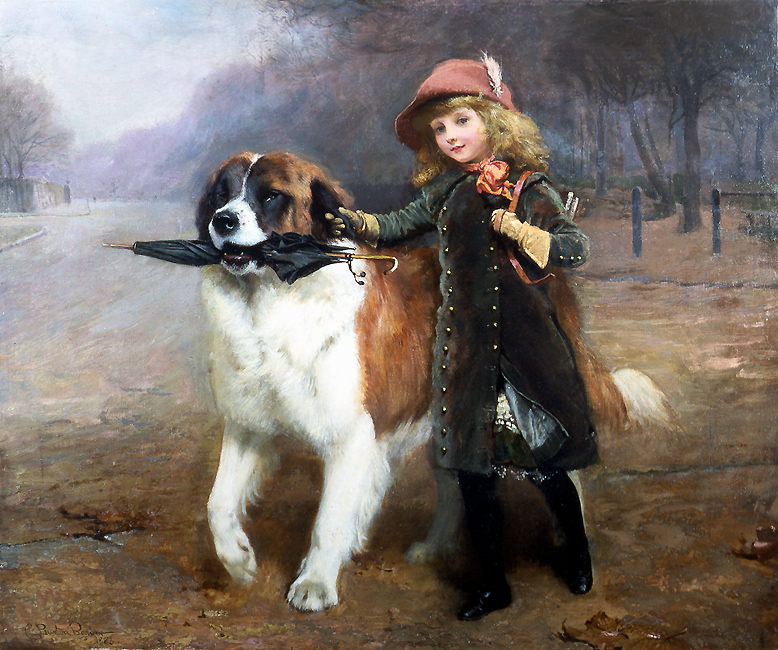 Off to School